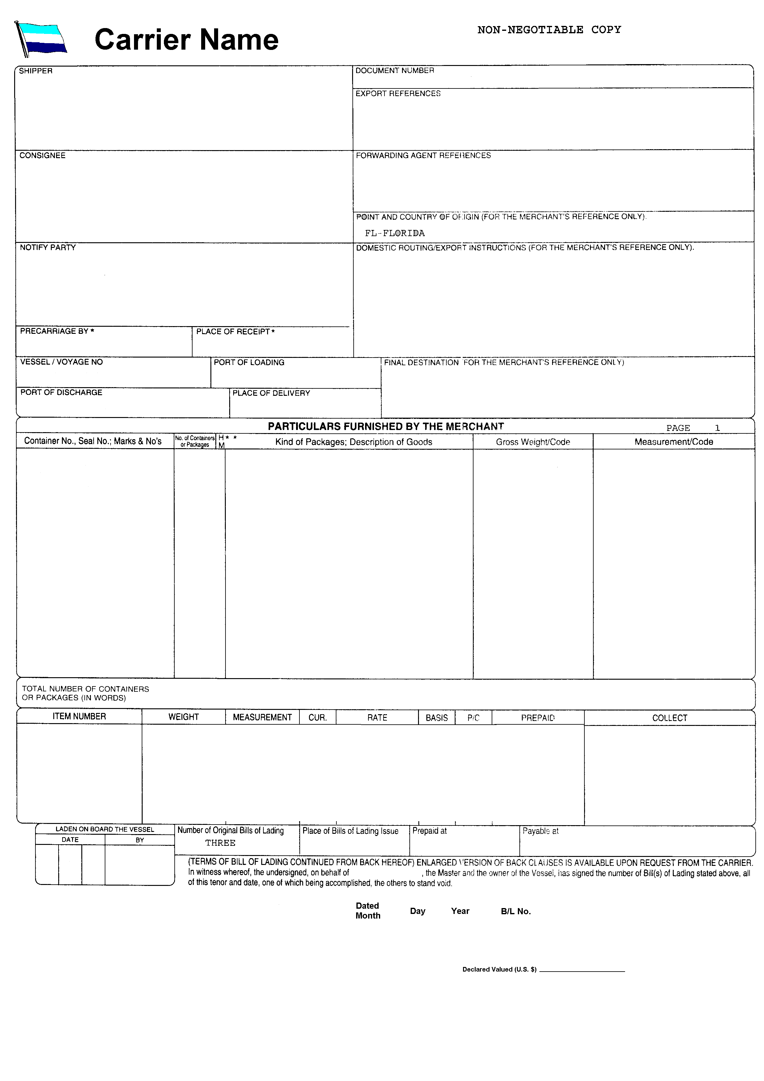 Bill of lading.